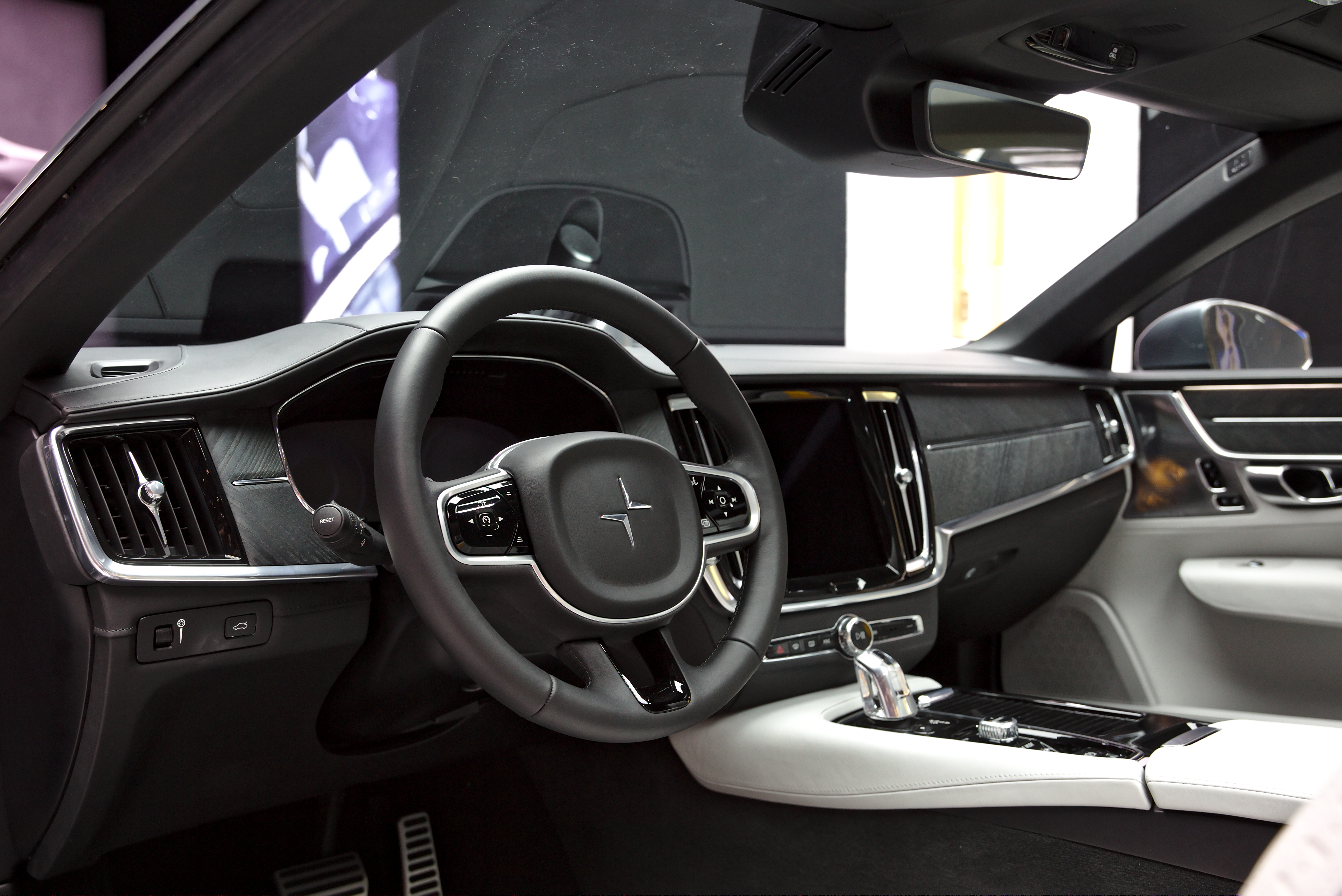 Polestar 1 at Geneva Motorshow 2018